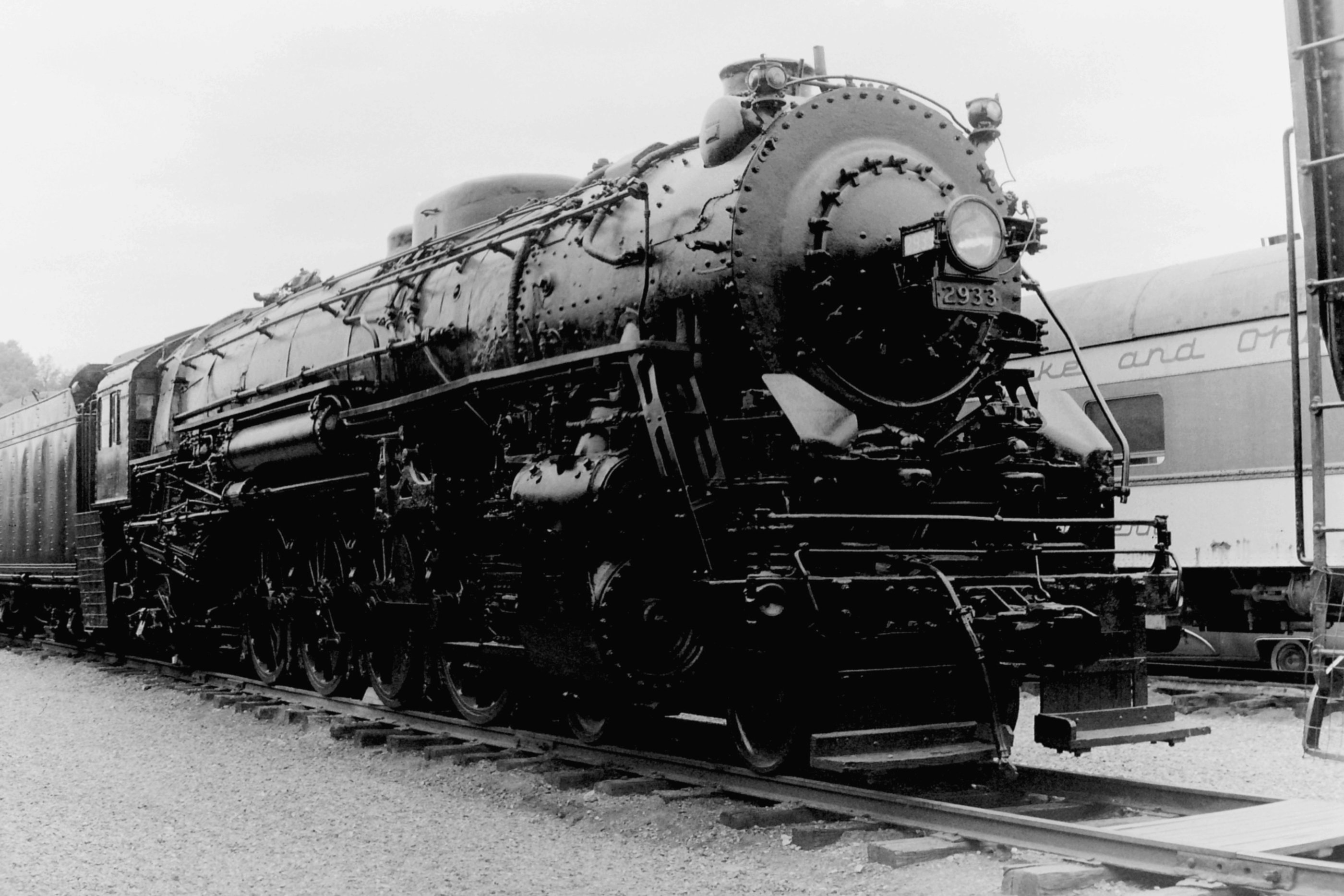 New York Central RR Class "L-2b" 4-8-2 No.2933 built by ALCO in 1929 at the National Museum of Transport St Louis, 8/70. Designed by P W Keifer, 600 Class L-1, L-2, L-3 & L-4's were built 1916-44.